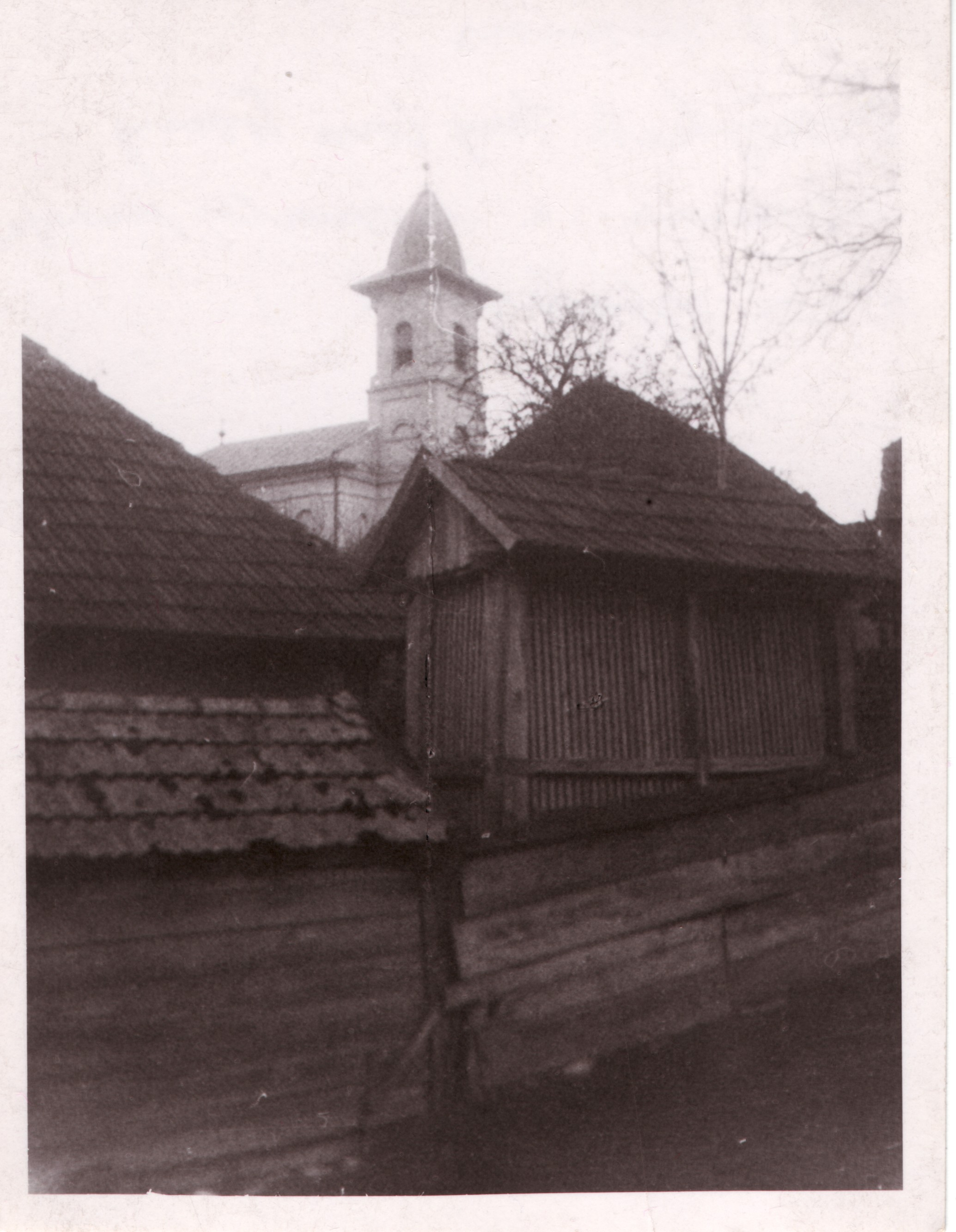 Church in Treznea, Salaj County, Romania